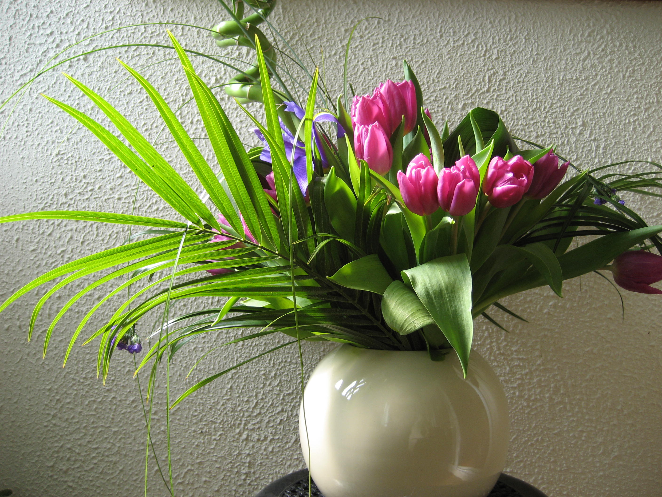 A bunch of flowers. A bouquet.